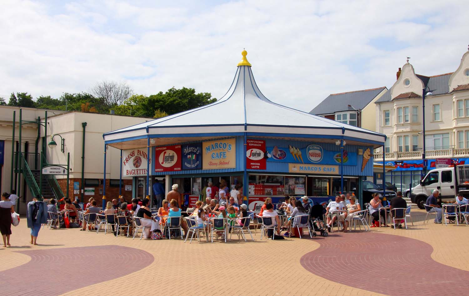 Marco's Cafe, Barry Island. Marco's Cafe is featured in the hit TV series Gavin and Stacey.